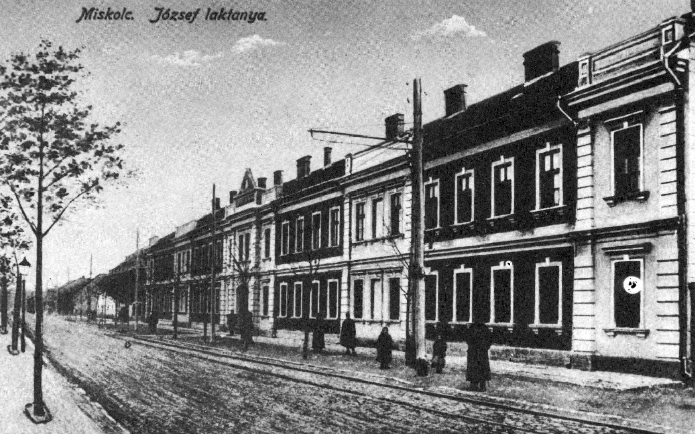 József soldier barracks, around 1900 Serház (today Tízeshonvéd) Street, Miskolc, Hungary